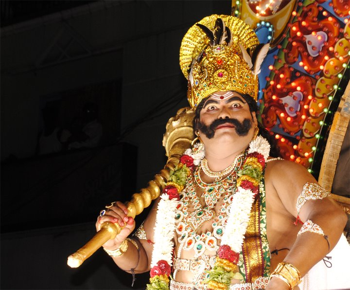 Aadi Festival 2011, Gugai, Salem, Tamil Nadu